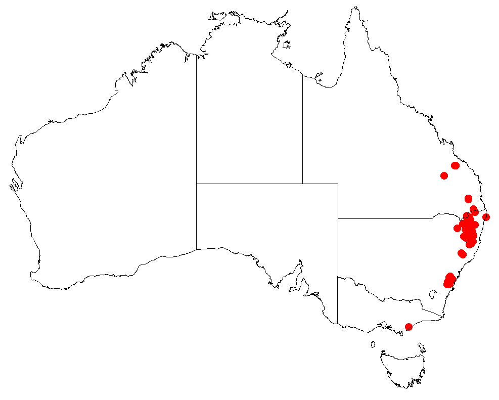 Bossiaea neo-anglica Occurrence data downloaded 11 September 2018 from AVH